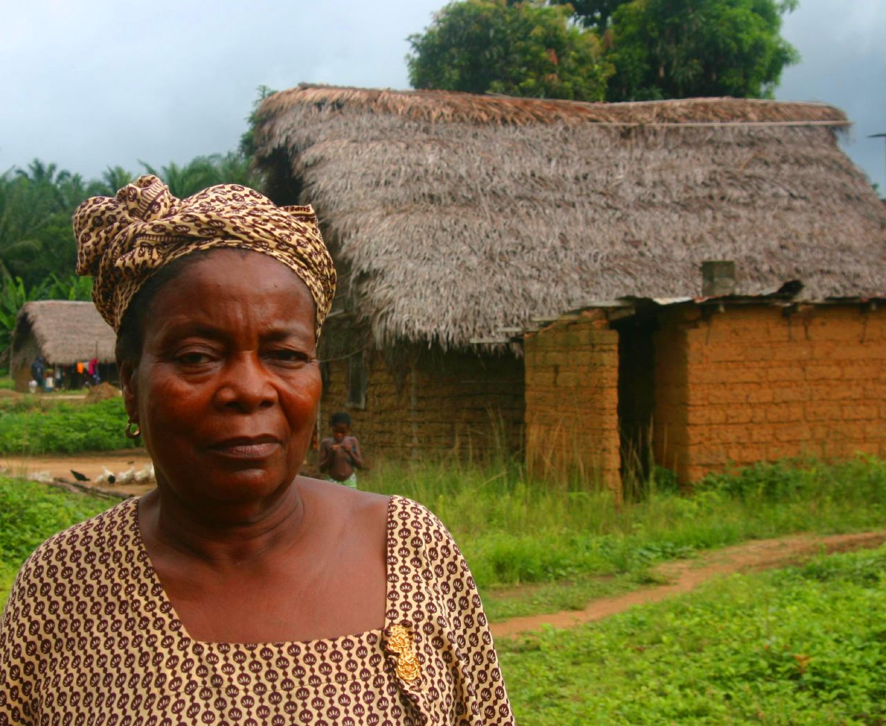 Sierra Leone - Njama village, Kailahun District. This woman has such dignity and strength in her expression. She clearly knows a thing or two about life, having lived through a 10 year civil war.